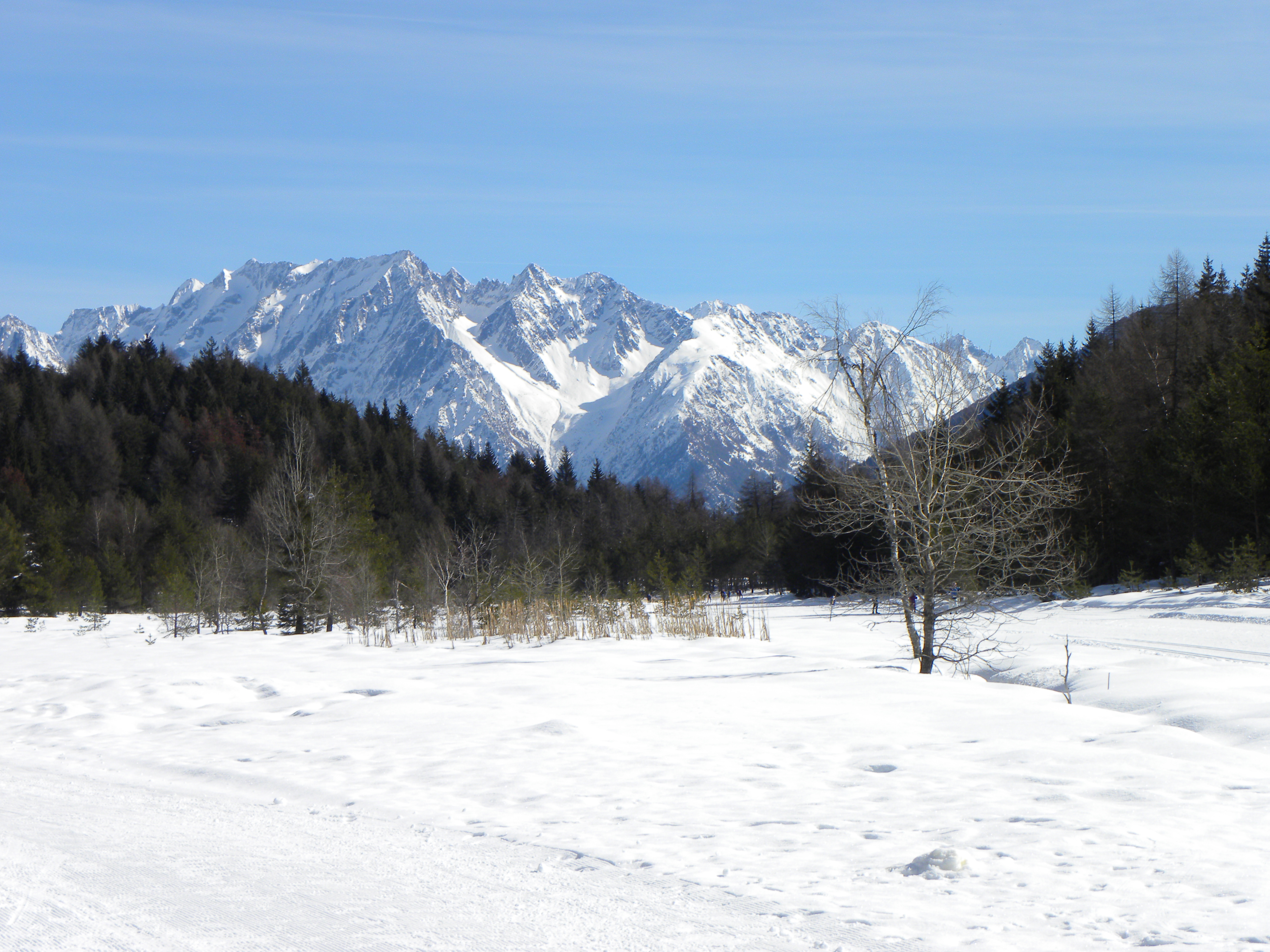 A panoramic view from Pian di Gembro - City of Villa di Tirano (SO), Italy Una vista panoramica da Pian di Gembro - comune di Villa di Tirano (SO)